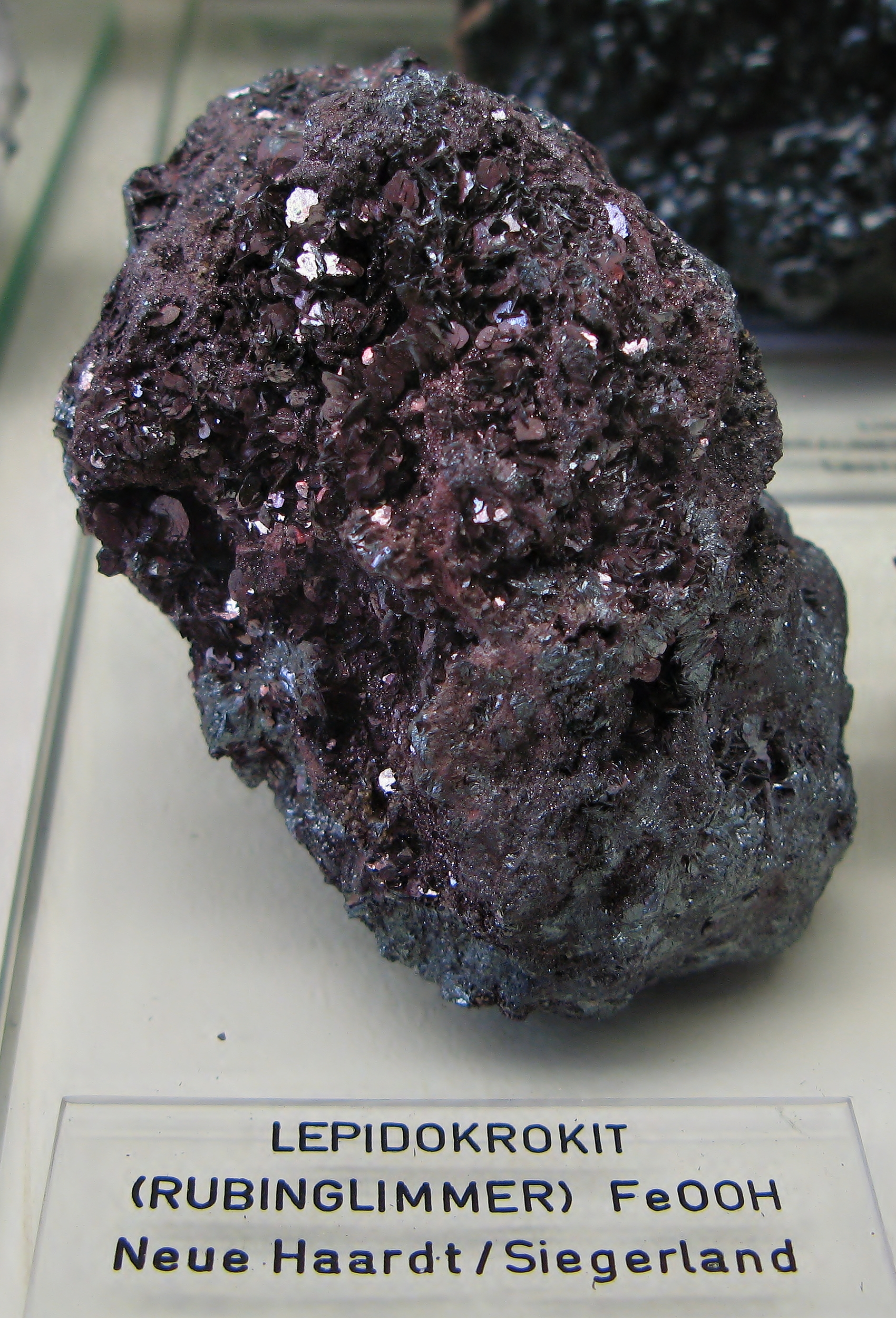 Lepidocrocite - Locality: Neue Haardt, Siegerland, Germany - Exposed in the Mineralogical Museum, Bonn, Germany